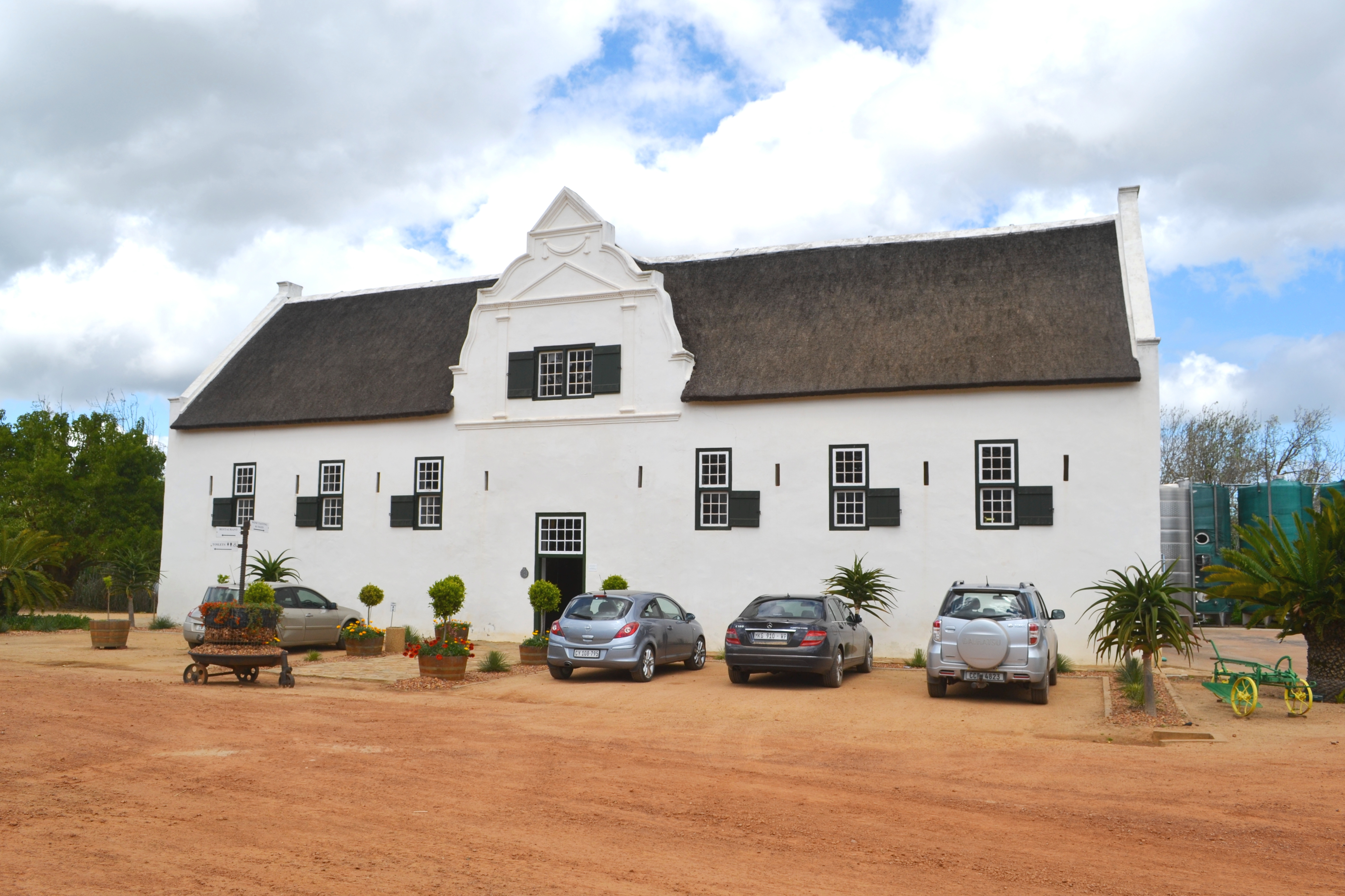 Groote Post Farm, Malmesbury District. In 1752 it was already one of the most important farms in the vicinity of Malmesbury. 1814-1827 it was the home of Lord Charles Somerset. This media shows a South African Protected Site with SAHRA file reference 9/2/060/0010.